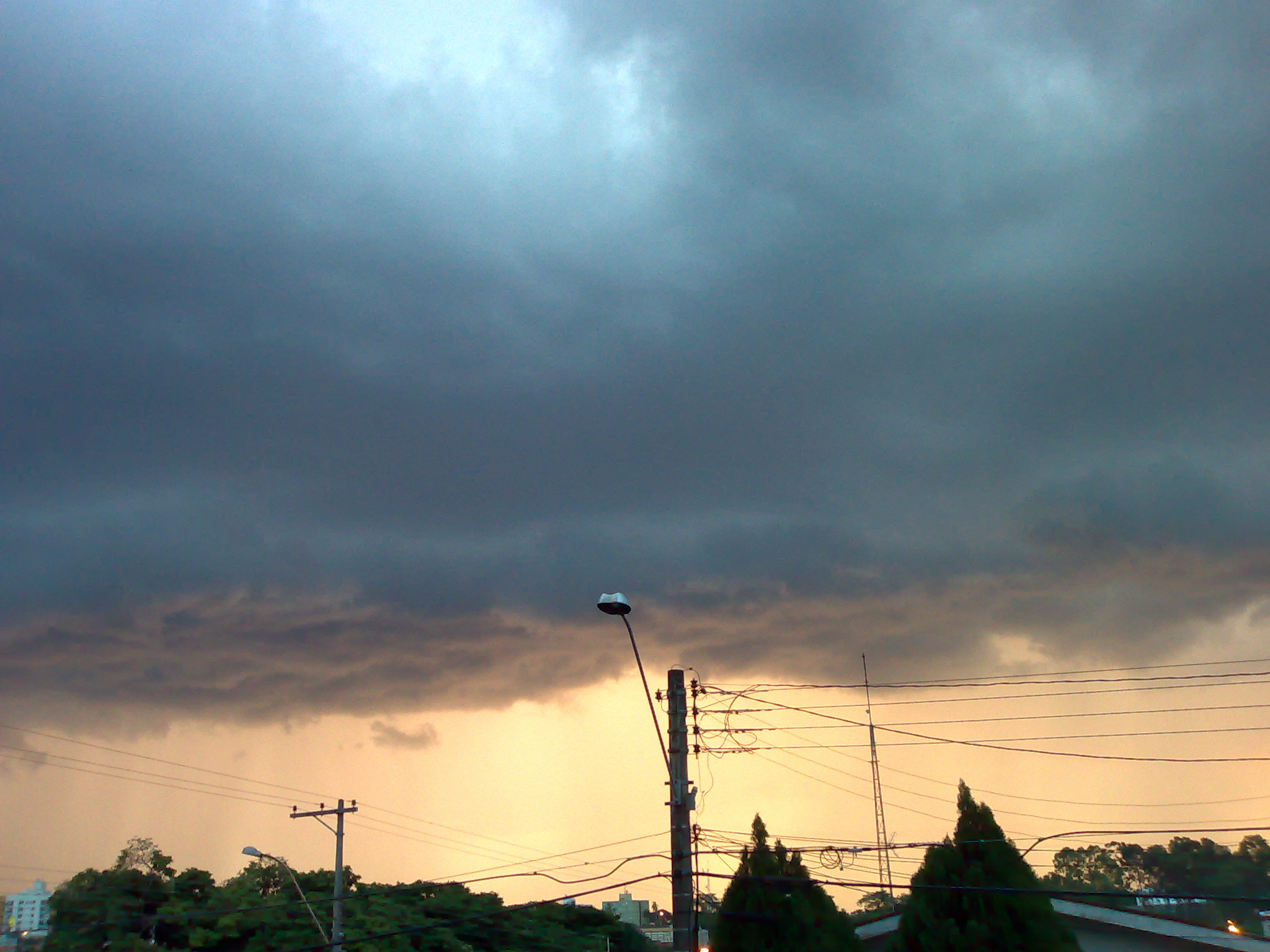 Rain in Americana, São Paulo, Brazil.